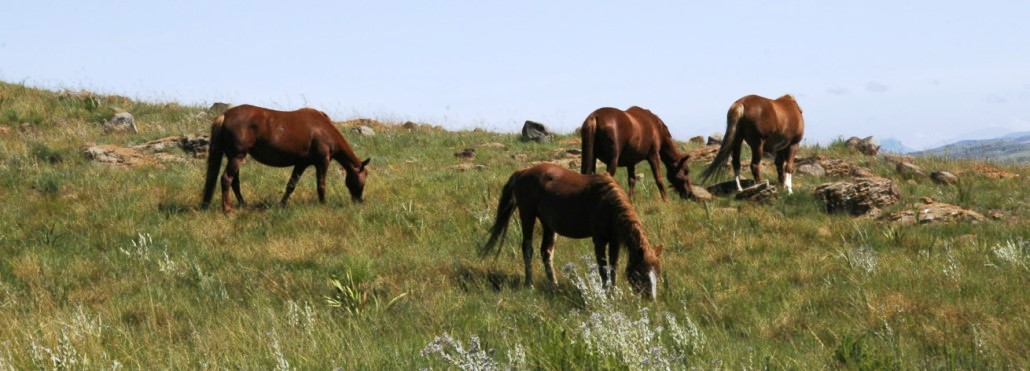 Wild horses grazing on Paardeplaats Nature Reserve on the Long Tom Pass